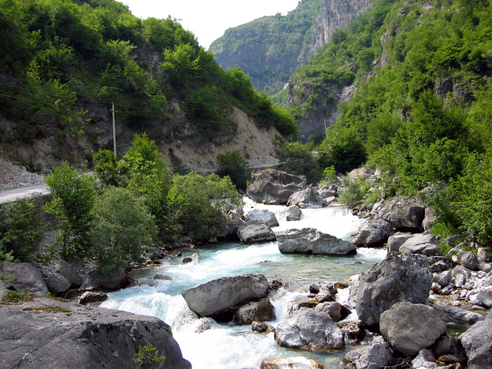 Valbona - a river in Northern Albania